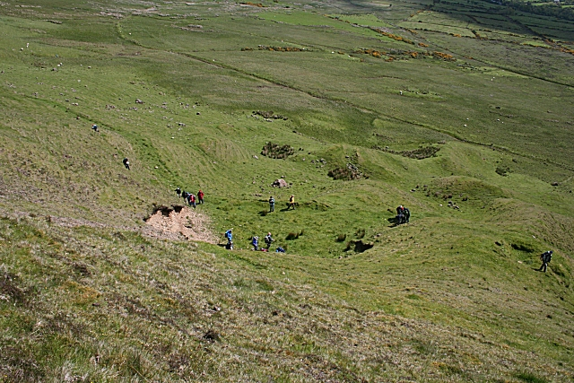 Tievebulliagh The curious pits an undulations at the foot of the scree slope are evidently man-made, but their purpose is uncertain. It has been suggested that they were quarried for flint, but why would Neolithic people go to all the trouble of mining and transporting flint from here when they could pick it up all round the coast for far less effort?